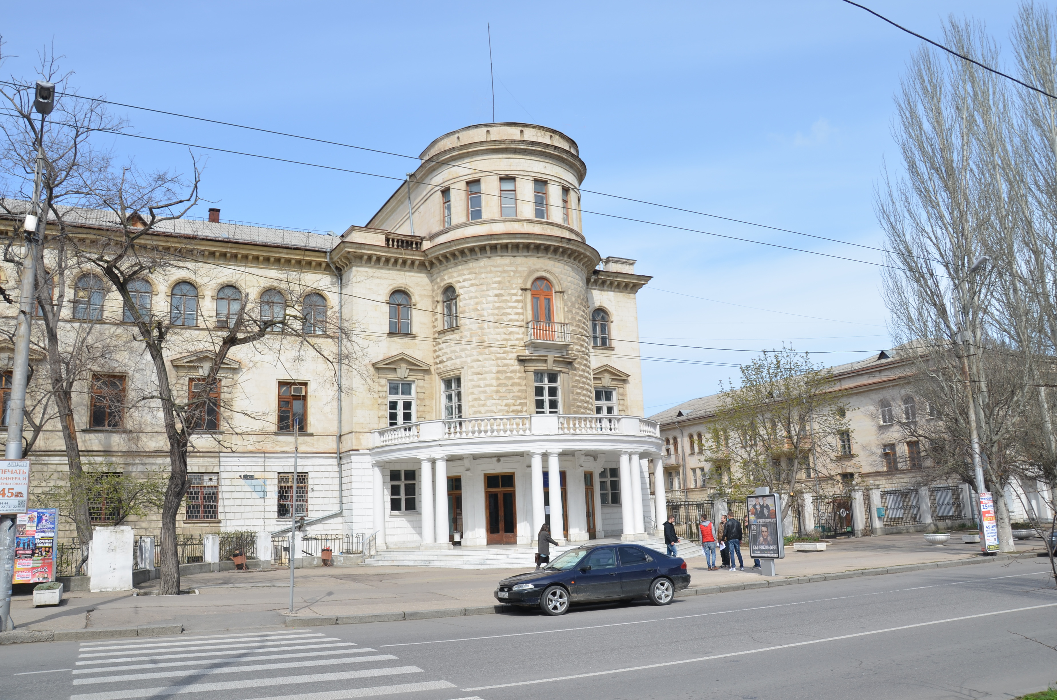 Sevastopol University